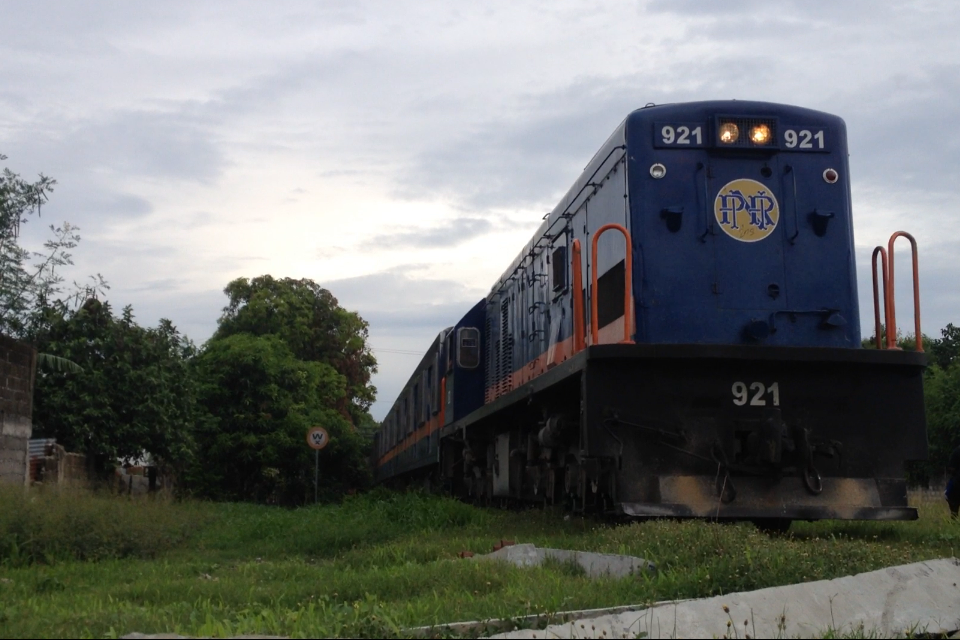 PNR DEL 921 near Sucat Station bound to Tutuban